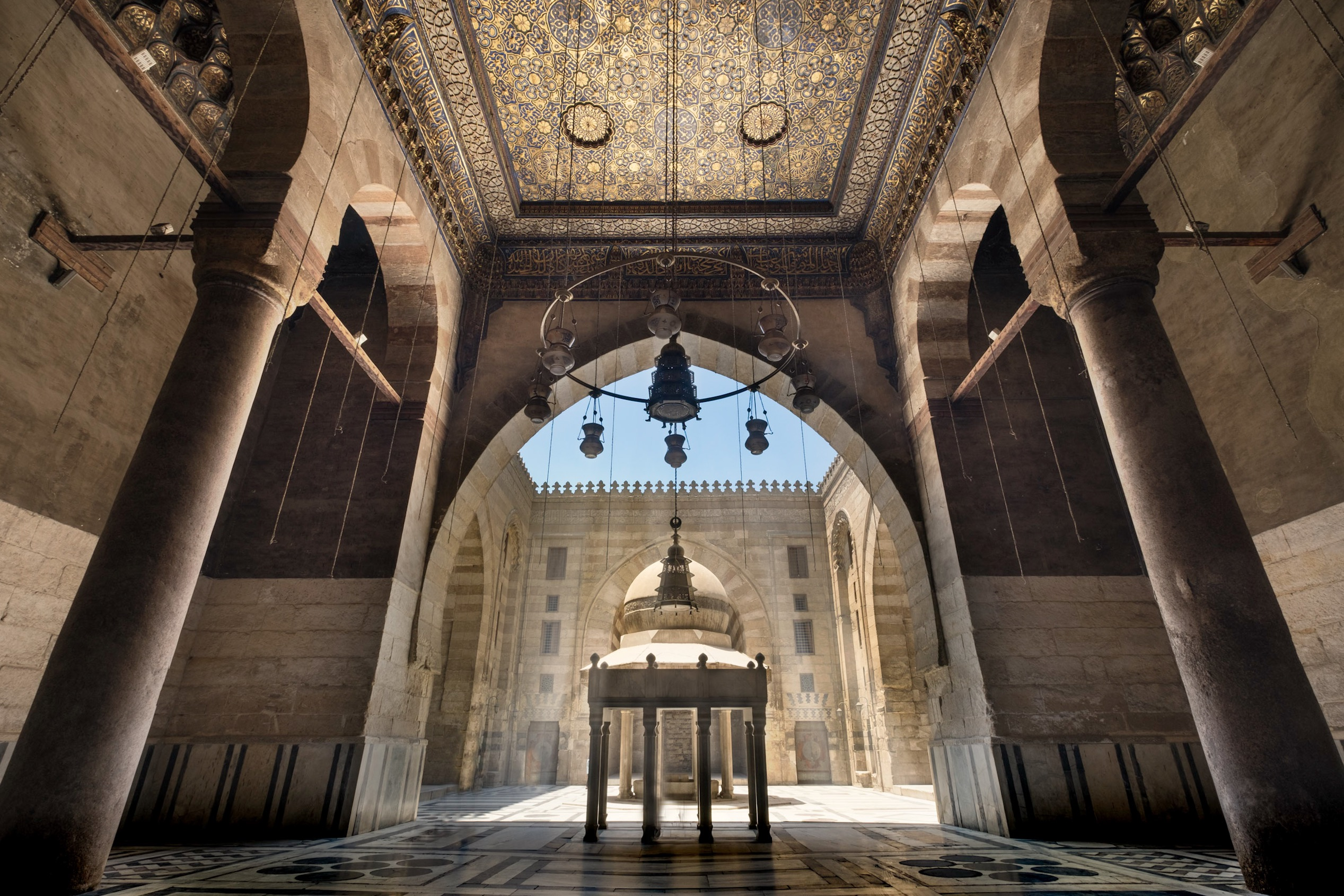 Barquqy Mosque in Moez street - Cairo